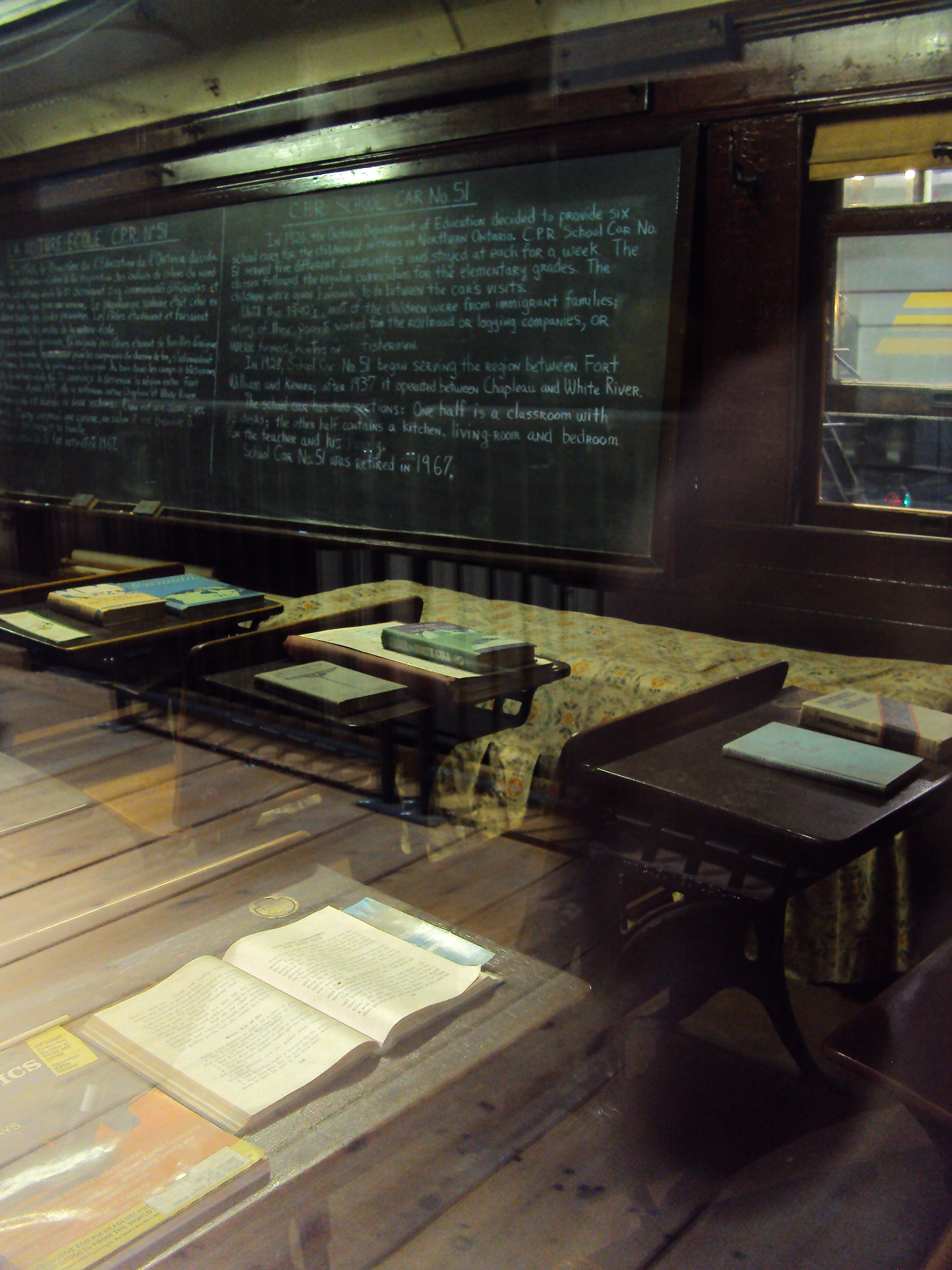 School on wheel classroom